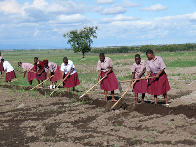 Students in Hai, Tanzania tending school crops in Hai, Kilimanjaro Region, Tanzania.